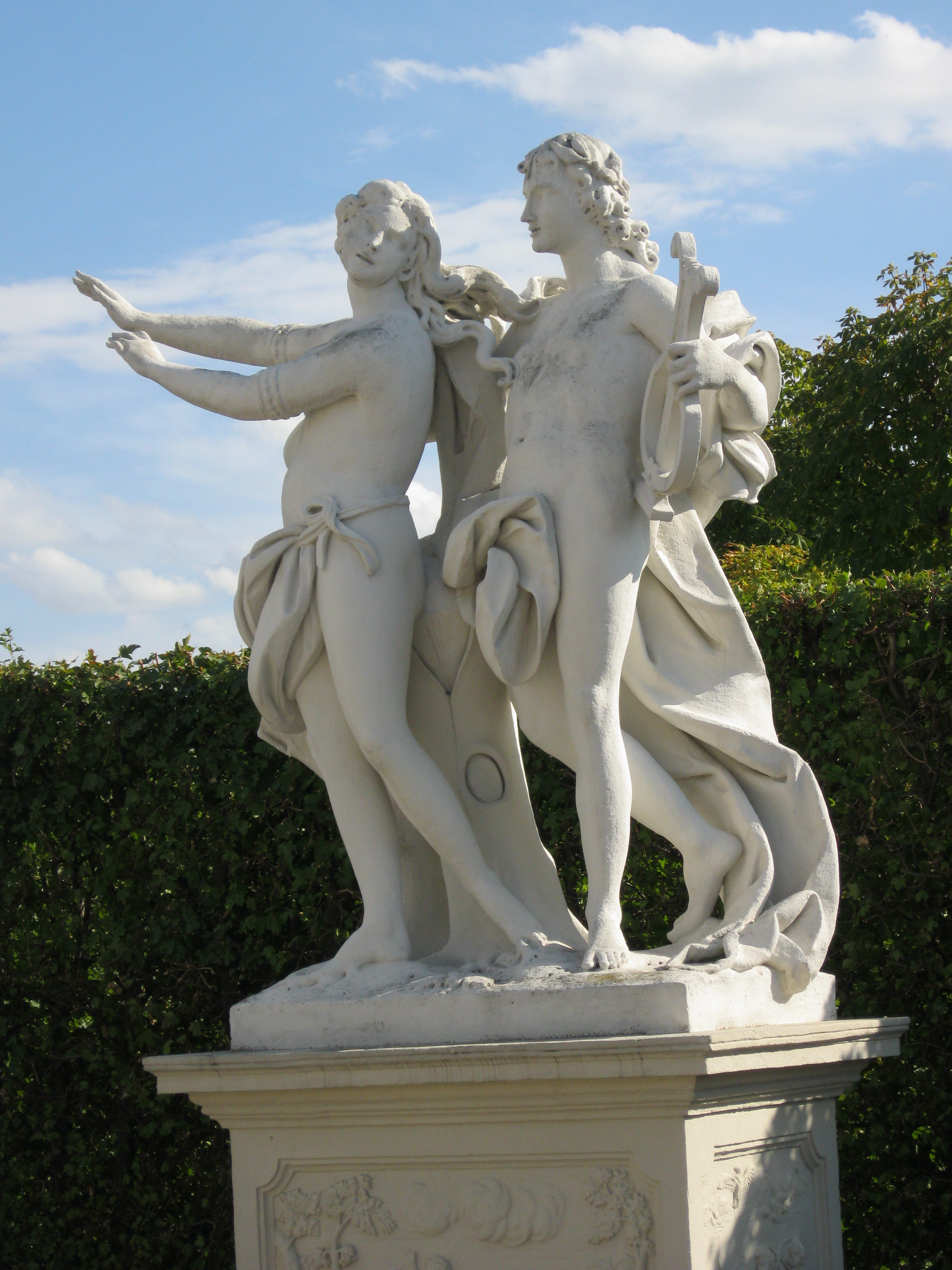 Sphinxes and sculptures in the gardens of Belvedere in Vienna, exterior sight Object location48° 11′ 31.49″ N, 16° 22′ 50.82″ E